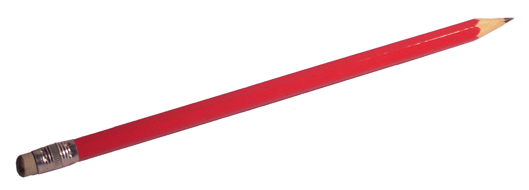 A Pencil